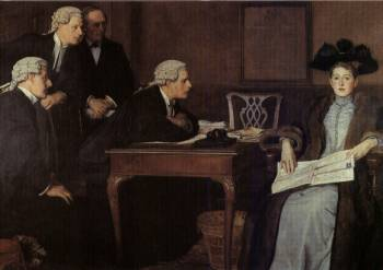 Defendant and Counsel, an example of a problem picture By William Frederick Yeames d. 1918